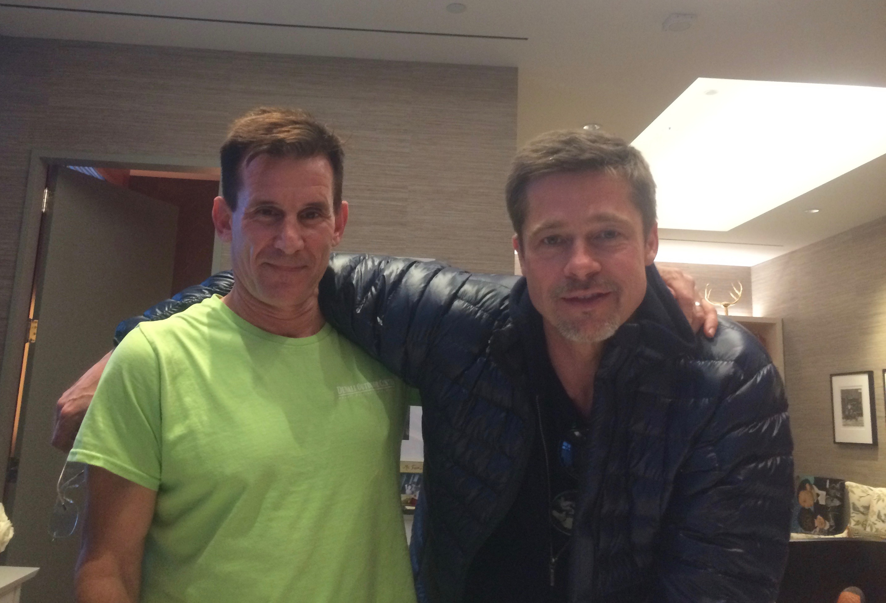 Brad Pitt is seen with Andrew Lauer